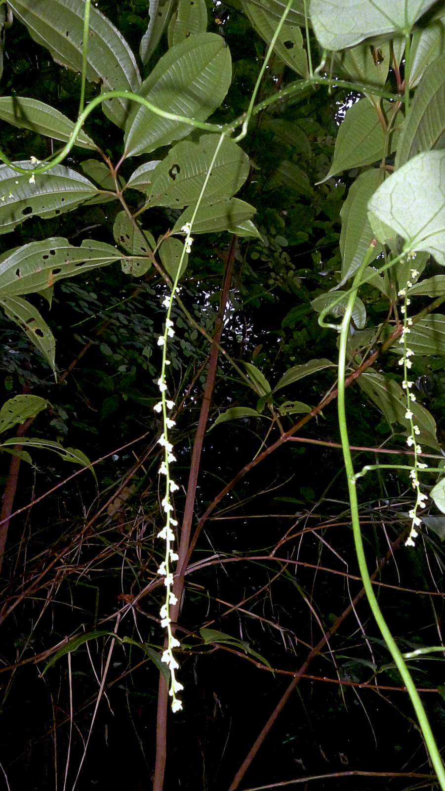 Odontocarya vitis (Vell.) J.M.A.Braga